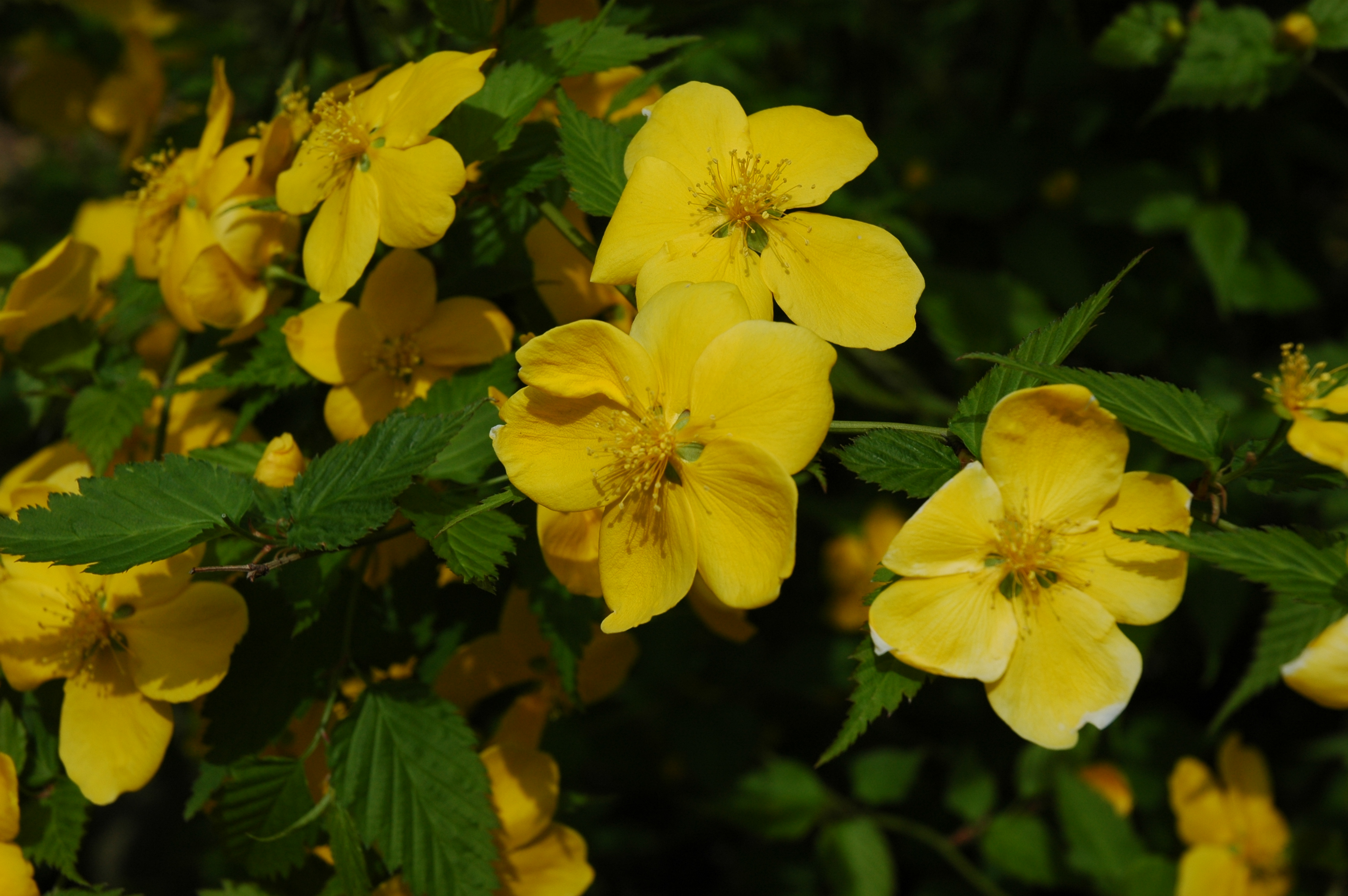 Japanese yellow rose in Kobe Municipal Arboretum